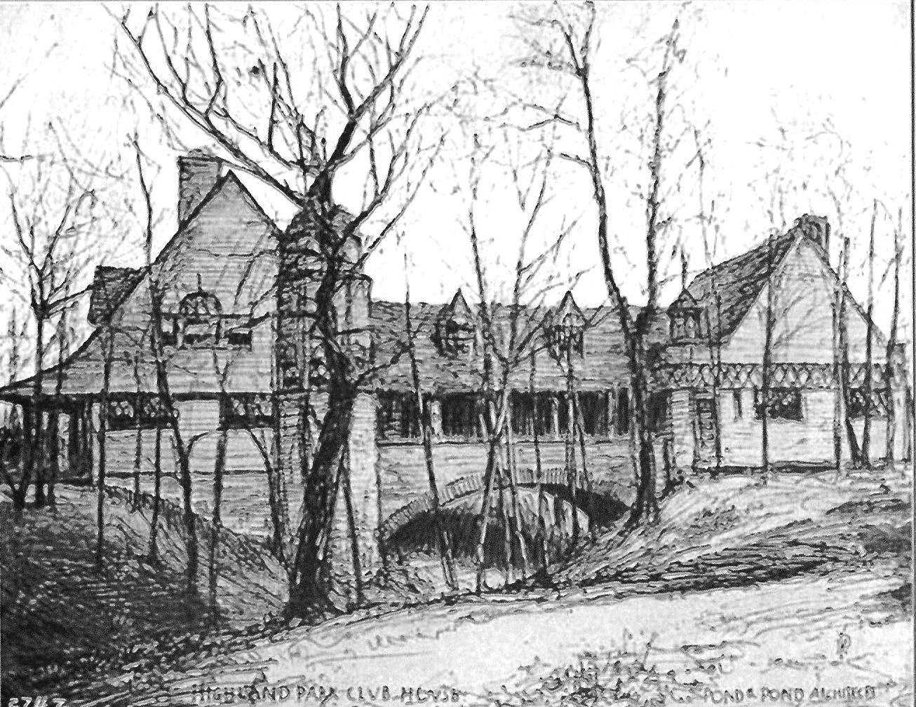 Photograph of Highland Park Club House in Highland Park, Illinois (designed by Pond and Pond)